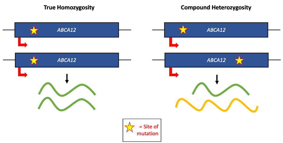 Manifestation of harlequin-type ichthyosis is caused by total loss of ABCA12 function. This may occur by one of two different mechanisms: either both parents hand down the same ABCA12 mutation, resulting in a true homozygote for harlequin ichthyosis, or each parent hands down a different mutant ABCA12 allele, resulting in compound heterozygous dysfunction of the ABCA12 lipid transporter protein. Mutations resulting in harlequin ichthyosis are overwhelmingly caused by truncating mutations, such as nonsense mutations or deletions. Current literature suggests that it is highly unlikely that a missense mutation would result in severe enough protein dysfunction to cause manifestation of a harlequin phenotype.